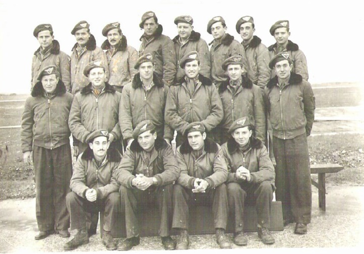 Cadets of flight course number 2, the first flight course given fully in Israel.